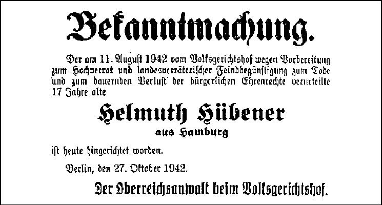 "Proclamation — The 17-year-old Helmuth Hübener from Hamburg, sentenced on 11 August 1942 by the People's Court to death and lasting loss of civil rights for conspiracy to commit high treason and treasonous promotion of the enemy, was executed today. Berlin 27 October 1942. — The Chief Reich Lawyer at the People's Court."